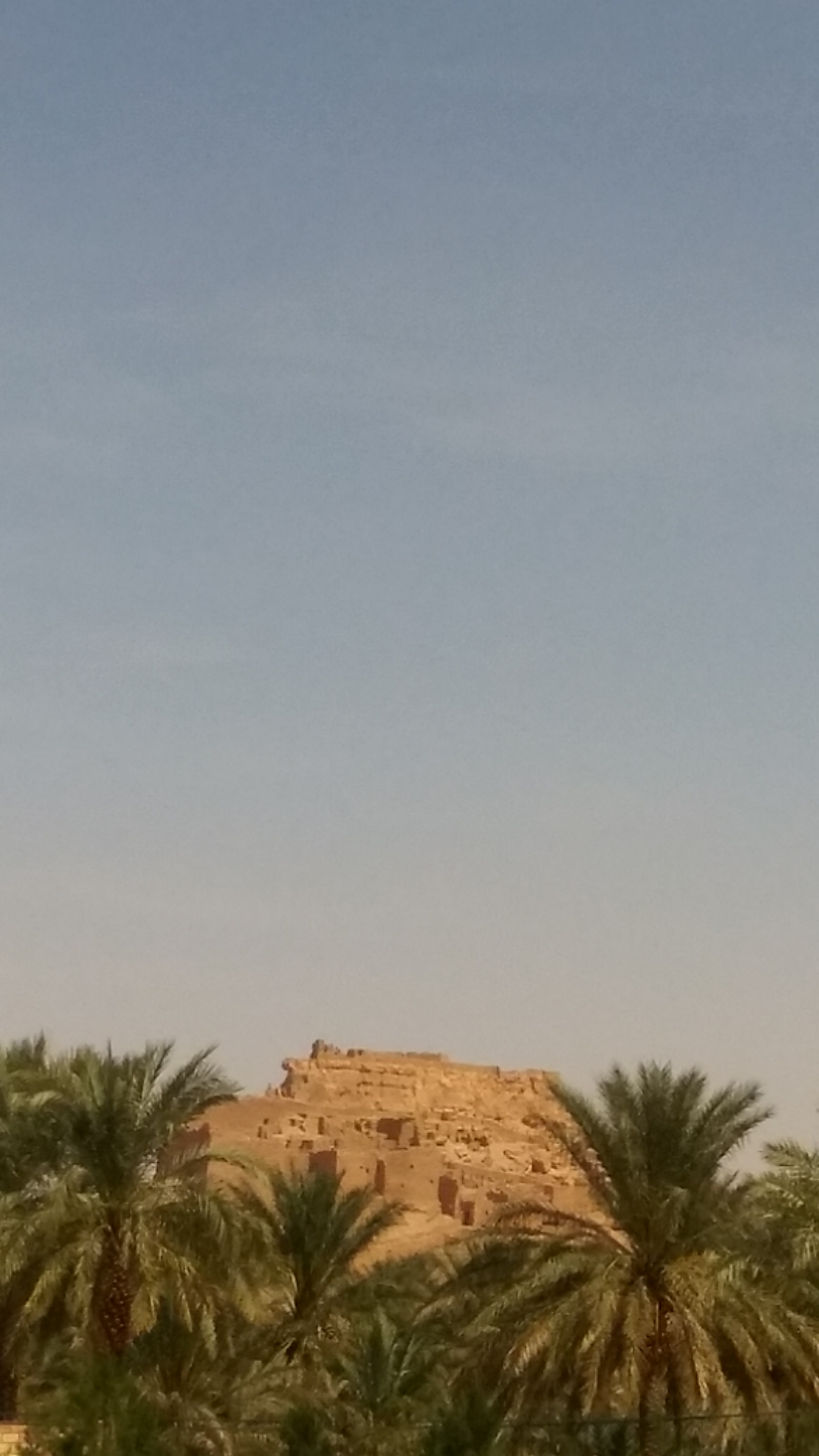 The old Castle